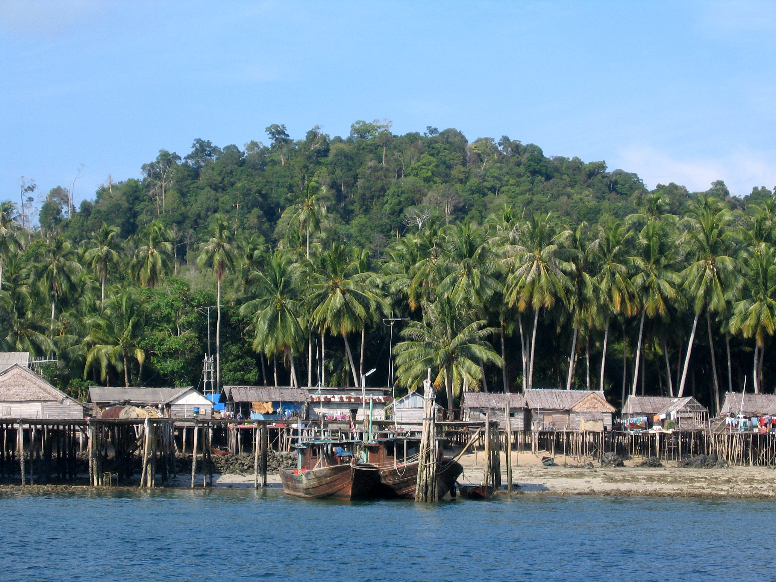 Photo of traditional stilt houses on the island of Cempa taken by me in July 2004 in a trip through the Lingga Islands. Original